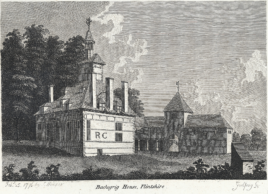 The initials "R.C." are inscribed on an exterior wall of the house.